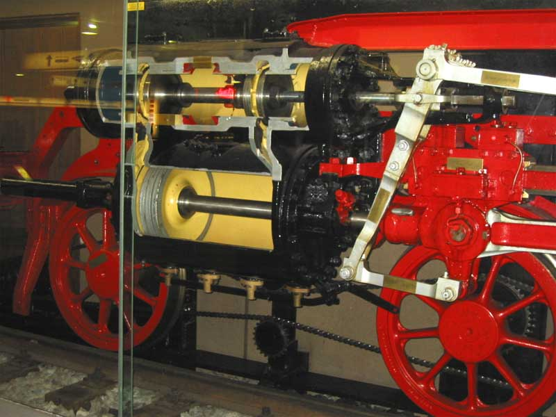 cylinder of steam engine cut for better view Eigenes Bild Public Domain GNU FDL